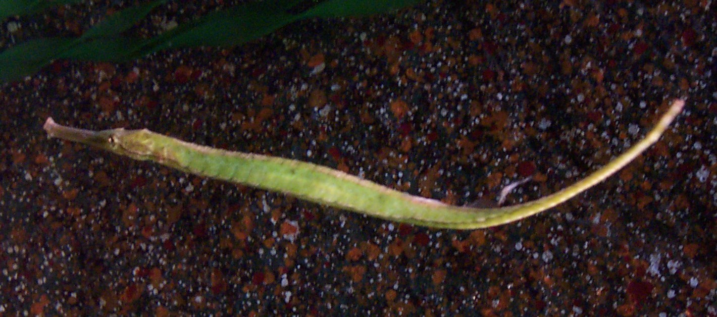 Pipefish, photographed at Siam Ocean World aquarium, Bangkok (Syngnathoides biaculeatus)